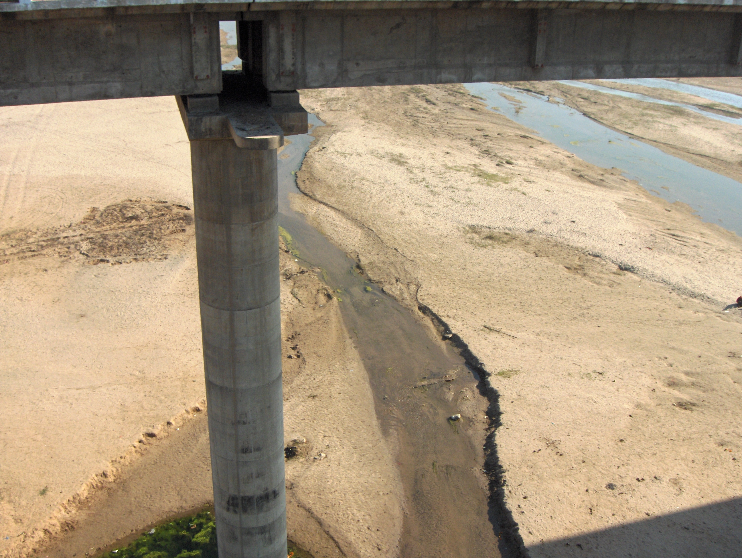 Vishwamitri River near Vadodara, India Picture taken by me, Nichalp on 26-Jan-06